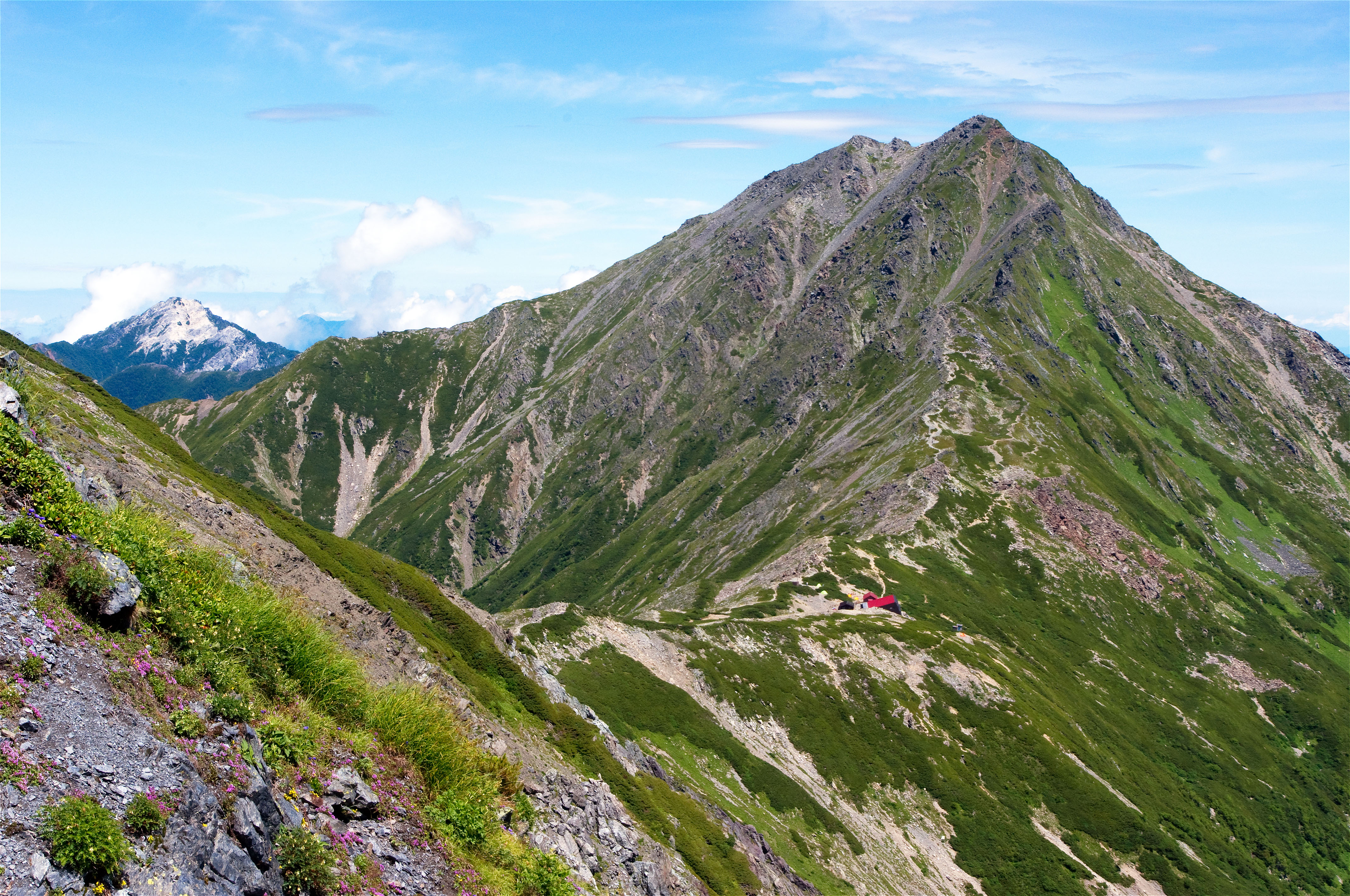 Kitadake as seen from the south.